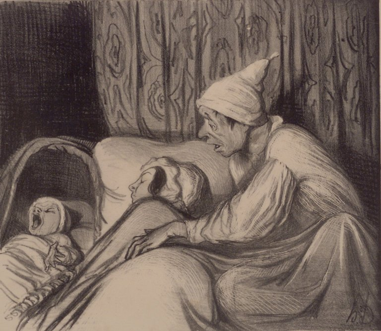 Part of the series Types parisiens, no. 41.